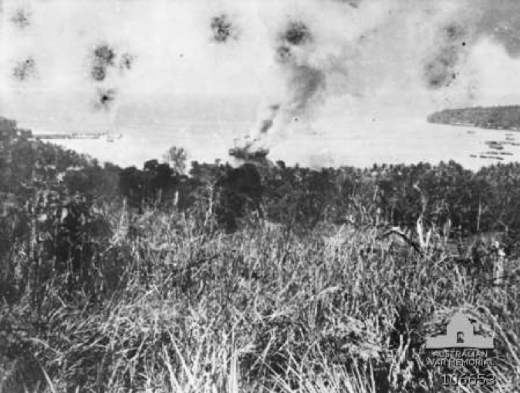 The Netherlands merchant ship Bantam under Japanese air attack on 28 March 1943 in Oro Bay, New Guinea.